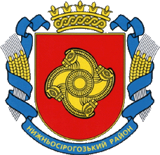 Coat of Arms of Nyzhnosirogizkyj raion